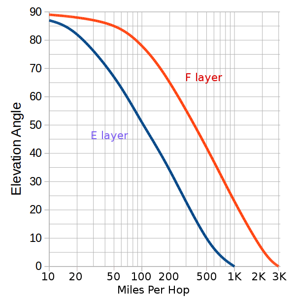 This shows that the angle at which an antenna must transmit energy if the signal is to reach a certain distance via either the E layer or the F layer of the ionosphere. Average heights are used for the two layers.